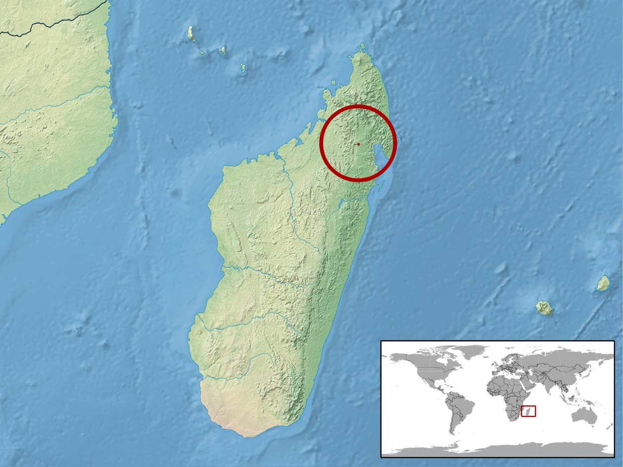 geographic distribution of Paracontias vermisaurus